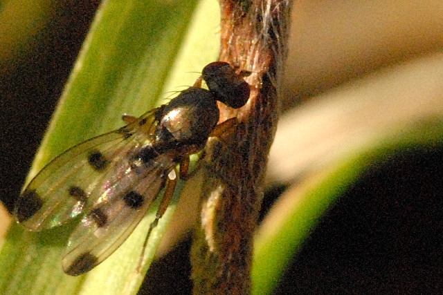 Picture taken in Commanster, Belgian High Ardennes . Species: Geomyza tripunctata